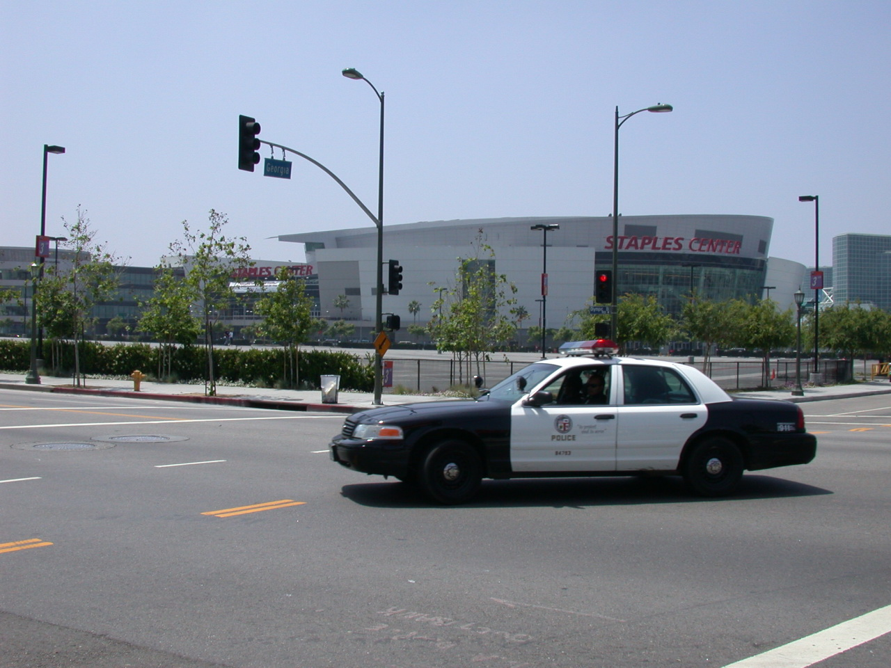 A second-generation Ford Crown Victoria Police Interceptor of the Los Angeles Police Department, photographed outside the Staples Center in June 2002.